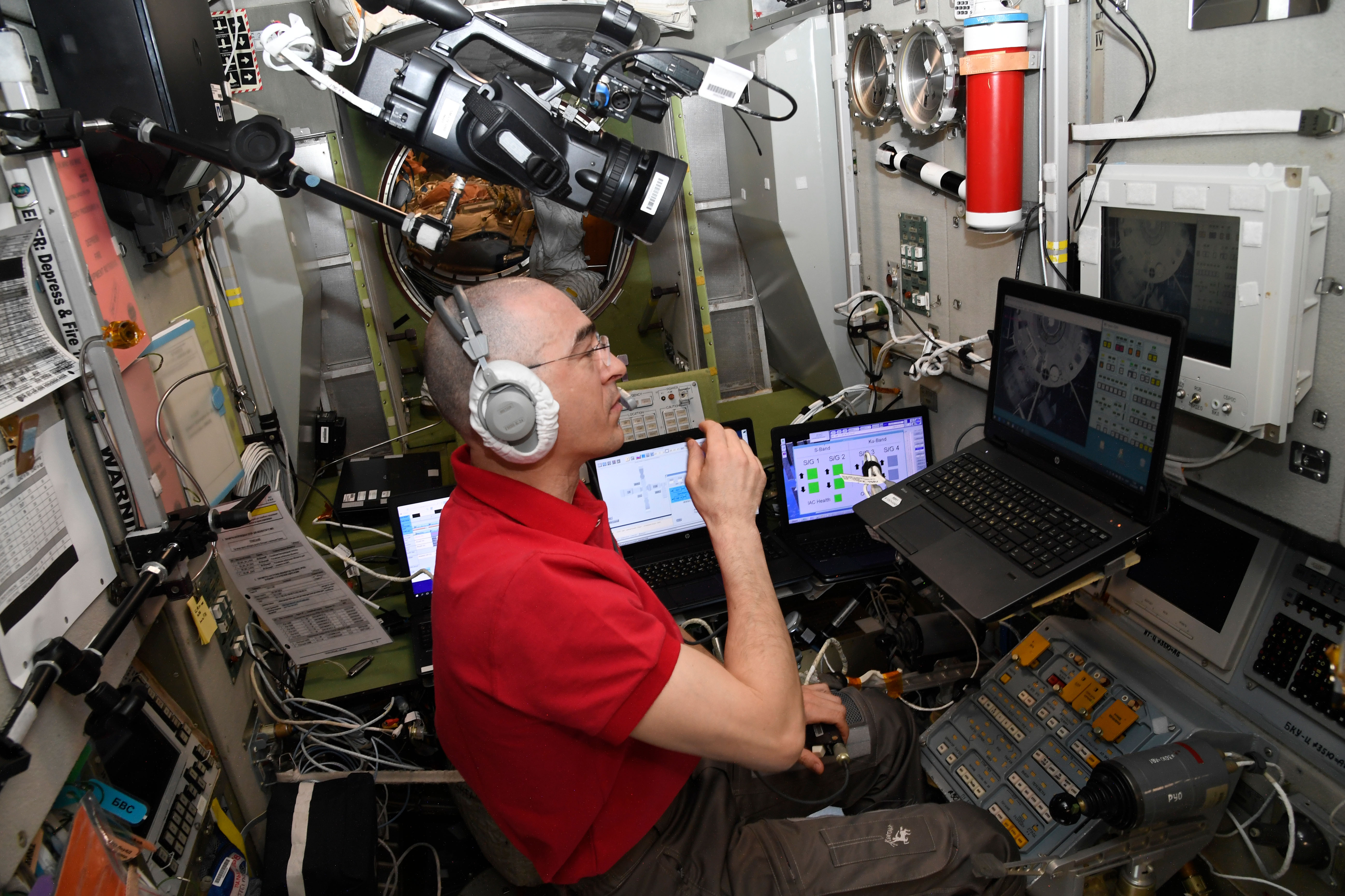 Roscosmos cosmonaut and Expedition 63 Flight Engineer Anatoly Ivanishin practices remote spacecraft maneuvering techniques on the Tele-Operated Robotics Unit (TORU) in the Zvezda service module. The TORU would be used in the unlikely event a Russian spacecraft would be unable to automatically rendezvous and dock to the International Space Station.